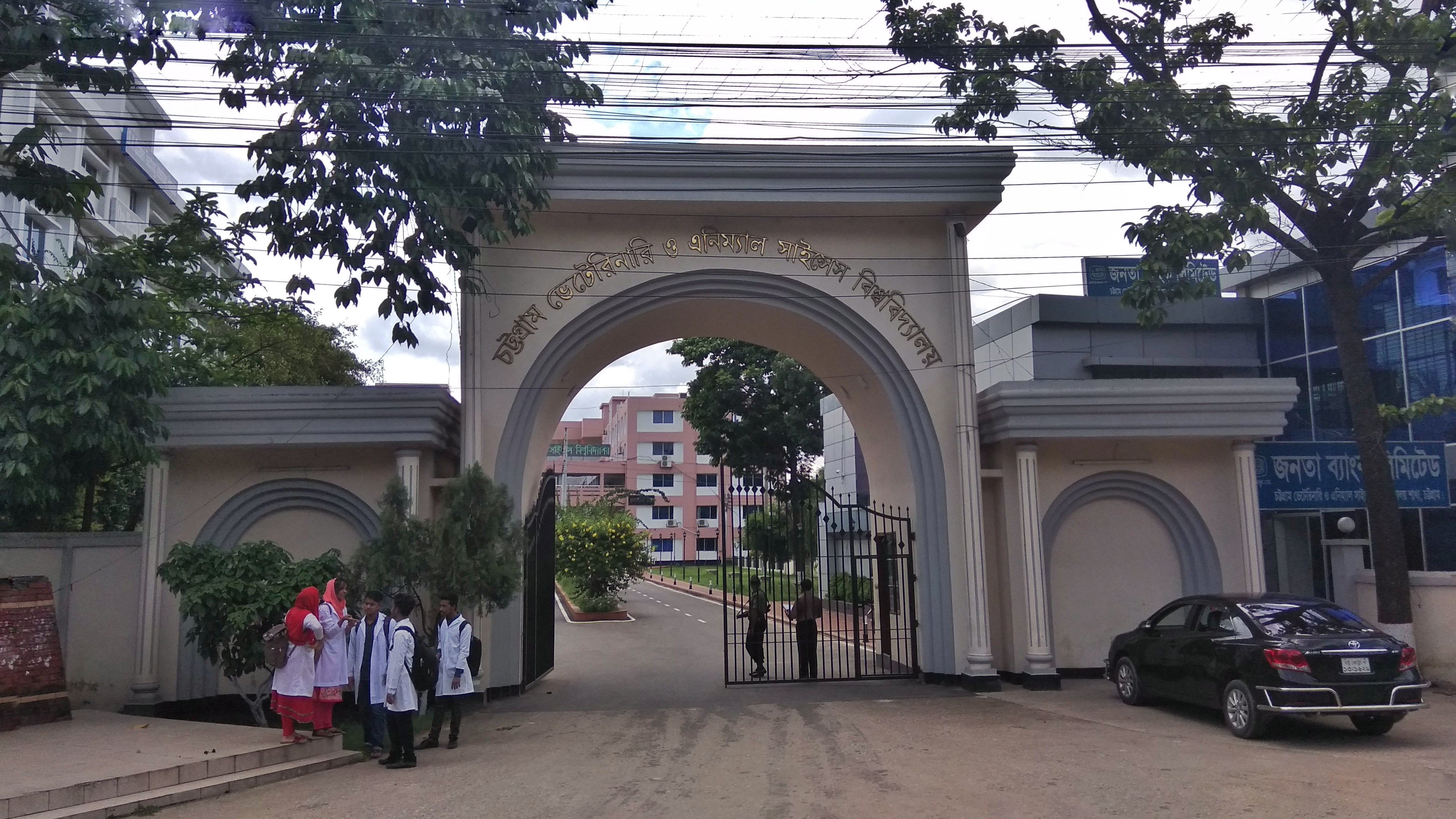 This is an image of the entrance of the CVASU.